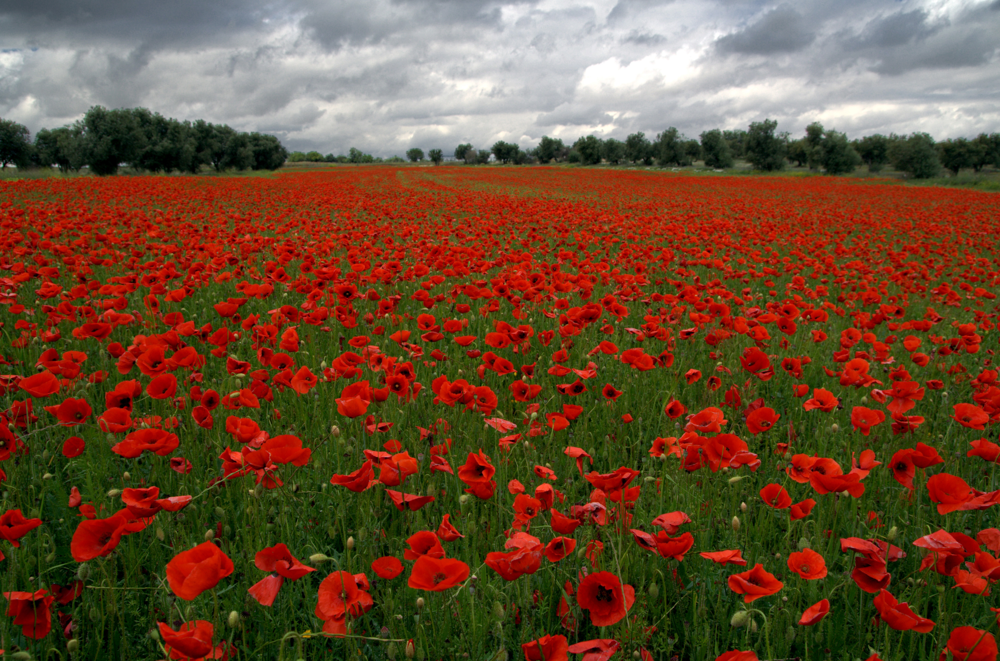 Poppies in Valdemoro (Community of Madrid, Spain).